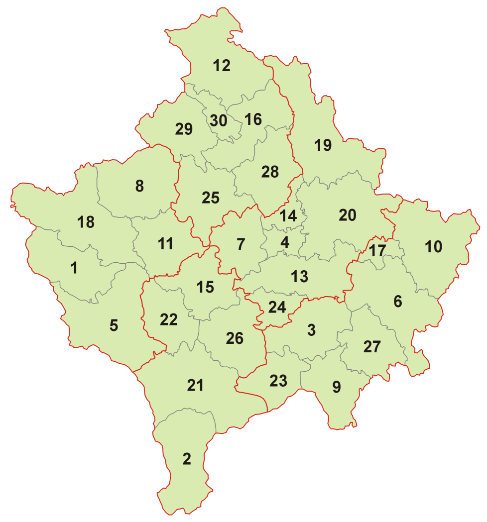 Municipalities of Kosovo (2008): 1. Komuna e Deçanit / Opština Dečani 2. Komuna e Dragashit / Opština Dragaš 3. Komuna e Ferizajit / Opština Uroševac 4. Komuna e Fushë Kosovës / Opština Kosovo Polje 5. Komuna e Gjakovës / Opština Đakovica 6. Komuna e Gjilanit / Opština Gnjilani 7. Komuna e Gllogovcit / Opština Glogovac 8. Komuna e Istogut / Opština Istok 9. Komuna e Kaçanikut / Opština Kačanik 10. Komuna e Kamenicës / Opština Kamenica 11. Komuna e Klinës / Opština Klina 12. Komuna e Leposaviqit / Opština Leposavić 13. Komuna e Lipjanit / Opština Lipljan 14. Komuna e Obiliqit / Opština Obilić 15. Komuna e Malishevë / Opština Mališevo 16. Komuna e Mitrovicës / Opština Mitrovica 17. Komuna e Novobërdës / Opština Novo Brdo 18. Komuna e Pejës / Opština Peć 19. Komuna e Podujevës / Opština Podujevo 20. Komuna e Prishtinës / Opština Priština 21. Komuna e Prizrenit / Opština Prizren 22. Komuna e Rahovecit / Opština Orahovac 23. Komuna e Shtërpcës / Opština Štrpce 24. Komuna e Shtimes / Opština Štimlje 25. Komuna e Skënderajit / Opština Srbica 26. Komuna e Suharekës / Opština Suva Reka 27. Komuna e Vitisë / Opština Vitina 28. Komuna e Vushtrrisë / Opština Vučitrn 29. Komuna e Zubin Potokut / Opština Zubin Potok 30. Komuna e Zveçanit / Opština Zvečani